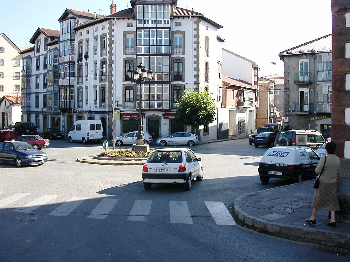 Plaza de la Libertad in Reinosa (Cantabria, Spain)